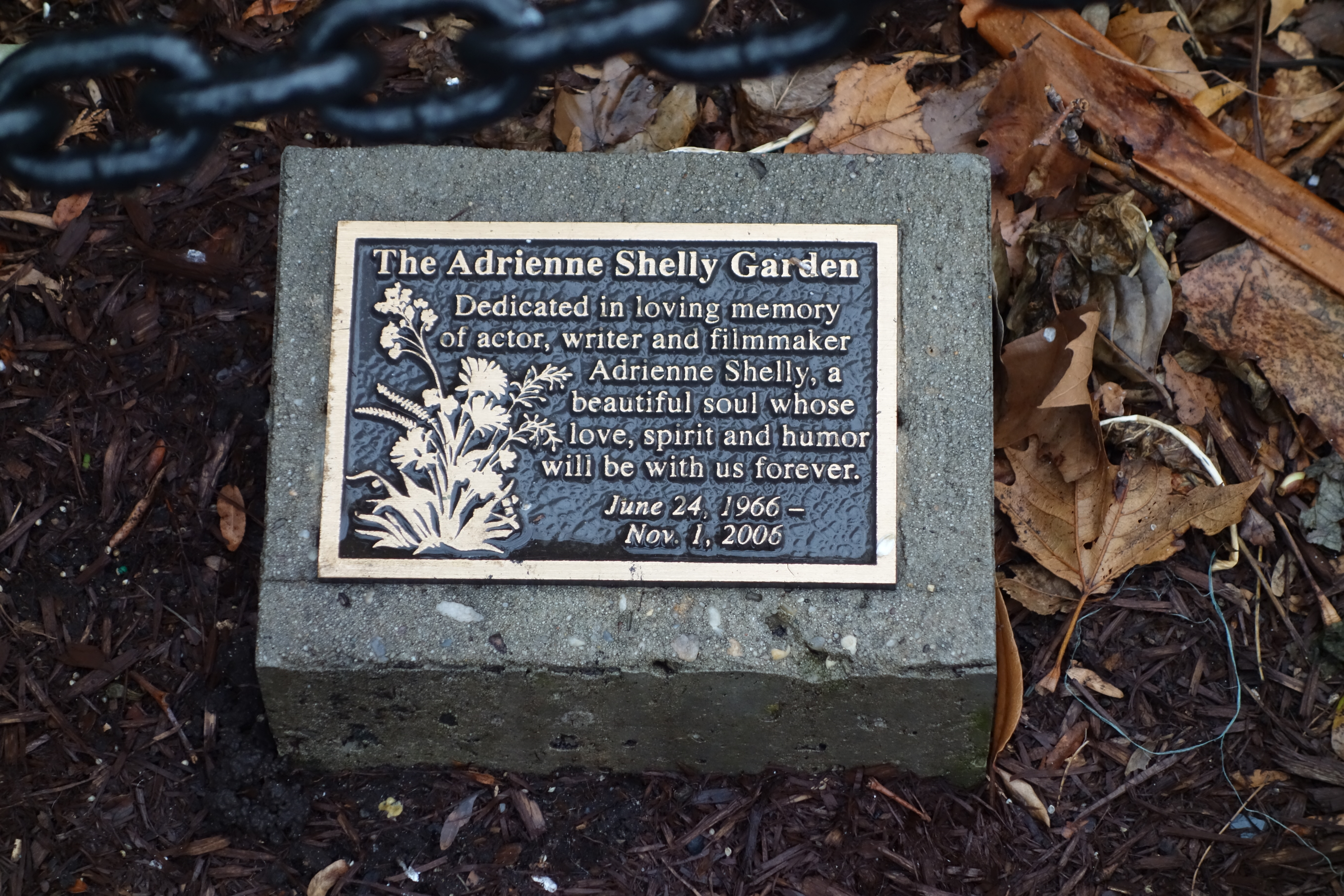 Inside Abingdon Square Park, between 8th Avenue, 12th Street, Hudson Street, and Bleecker Street in the West Village, Manhattan.